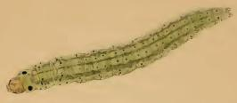 Stainton’s Natural History of the Tineina (1855–1873): Agonopterix arenella